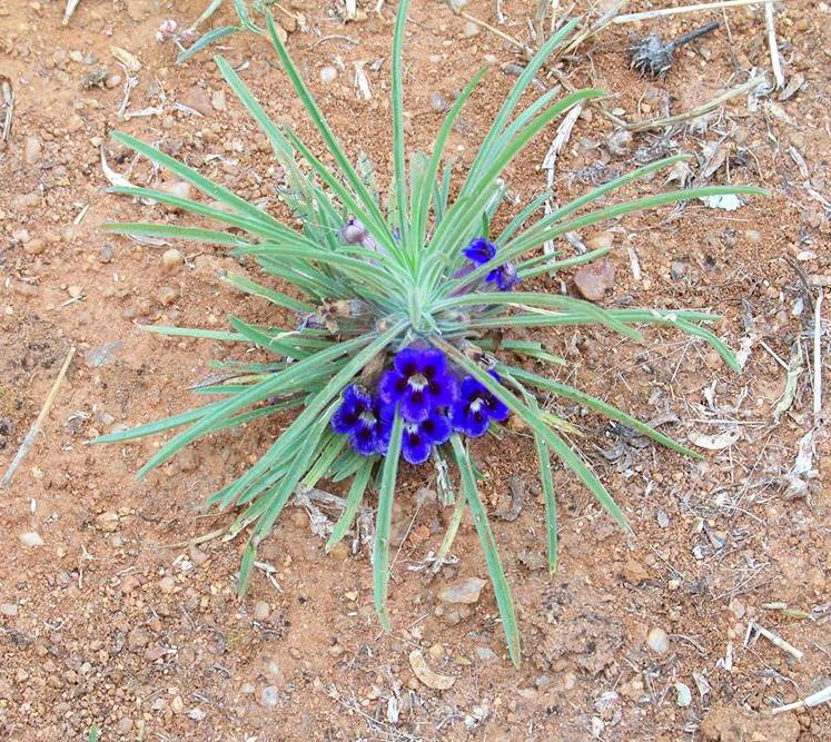 Carpet flower near Bylsteel in Limpopo, South Africa